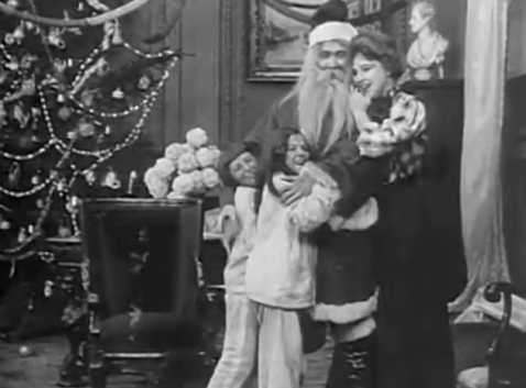 Still of A Trap for Santa, 1909 silent film by David W. Griffith